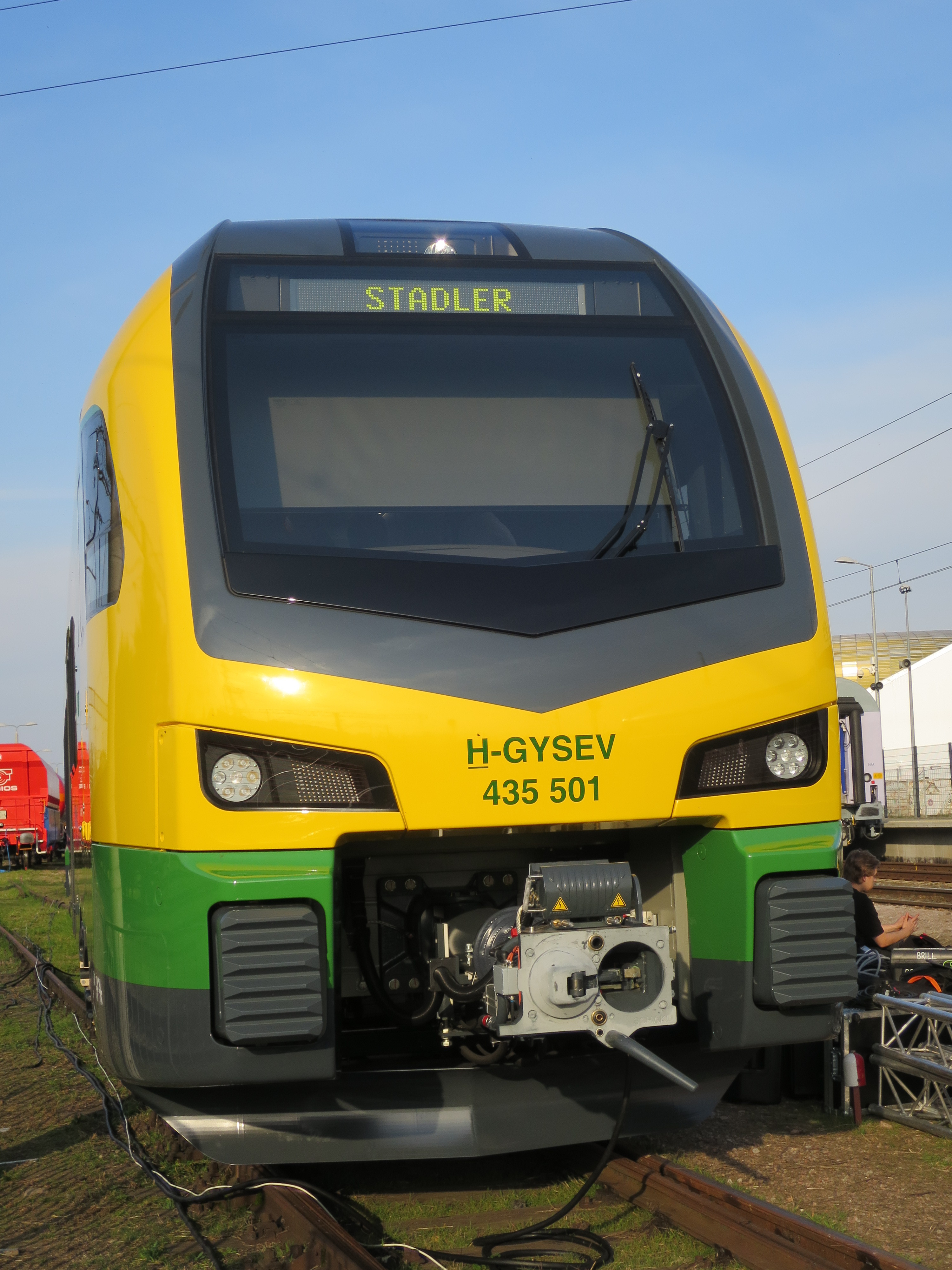 The making of this document was supported by Wikimedia Polska Association, within Wikigrant no. WG 2017-44. Stadler FLIRT GySEV 435 501